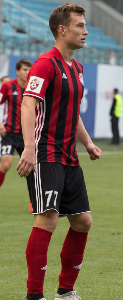 Aleksandr Salugin with FC Amkar Perm in a game against FC Dynamo Moscow.